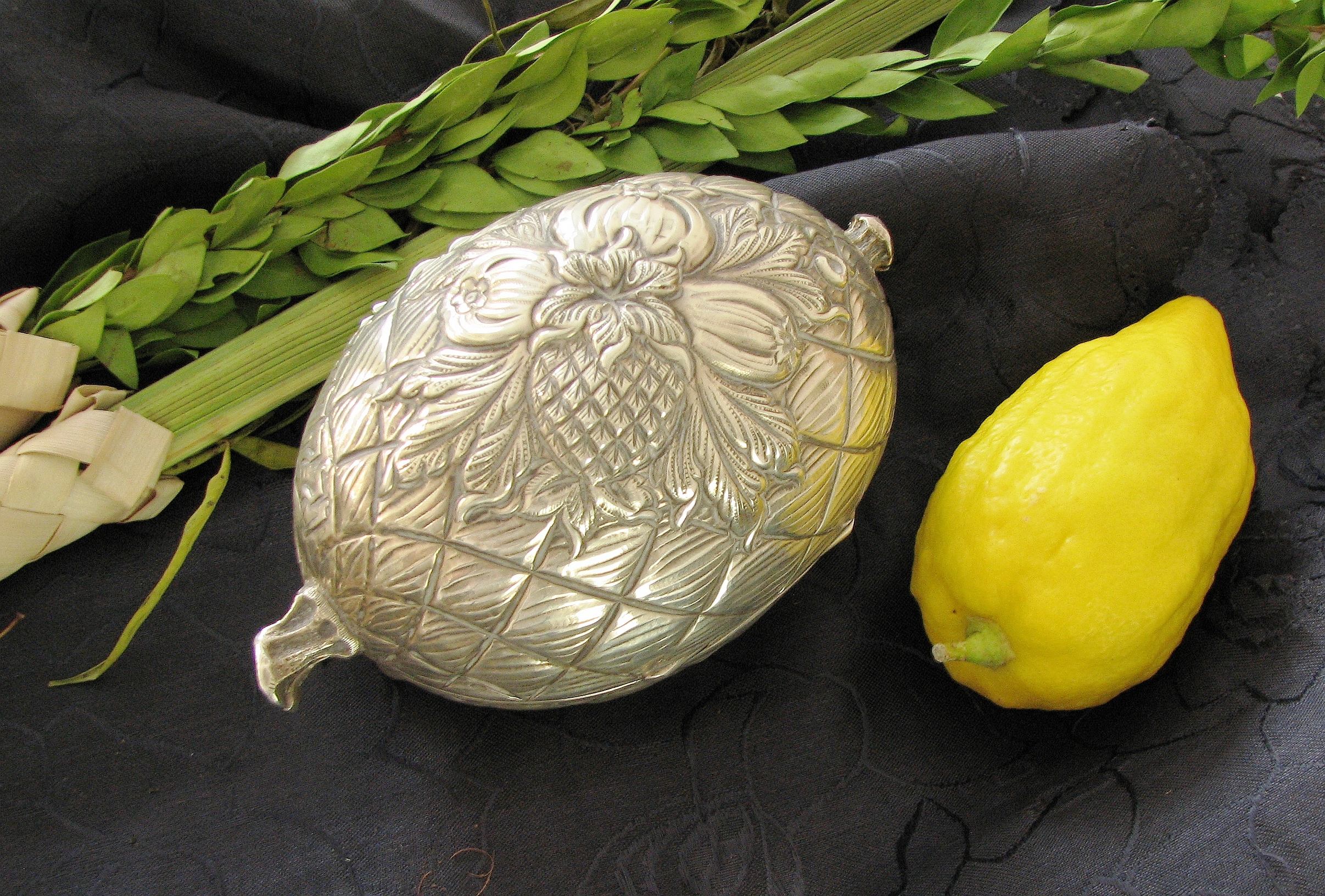 Etrog, silver etrog box and lulav, used on the Jewish holiday of Sukkot